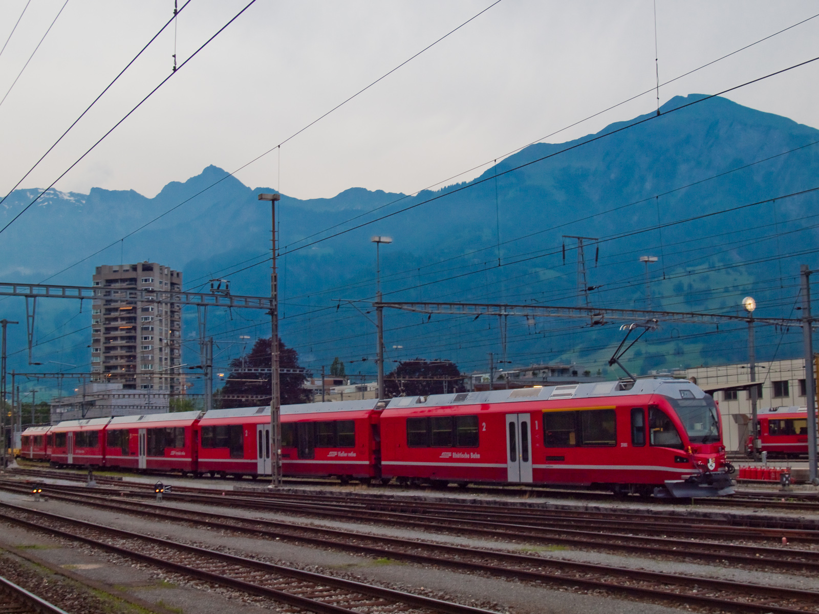 The first member of the new Rhätische Bahn S-Bahn multiple unit class seen during its test period at Landuqart station. Road number: ABe 4/16 3101